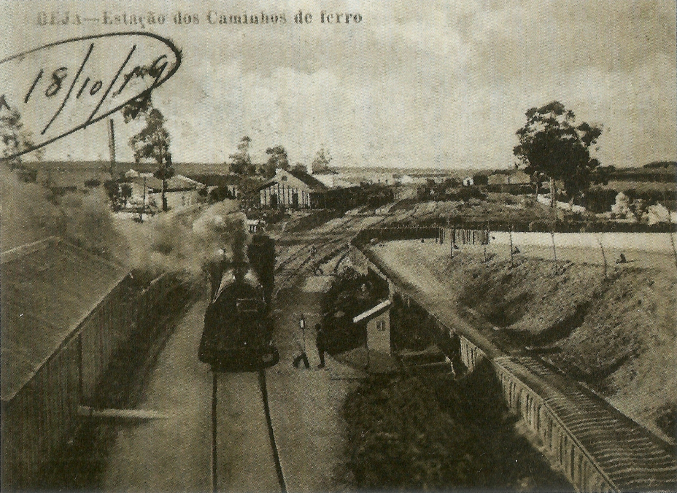 Old Beja Railway Station, in Portugal. Postcard from 1919, according to the date in the image. This station was totally replaced in 1940.